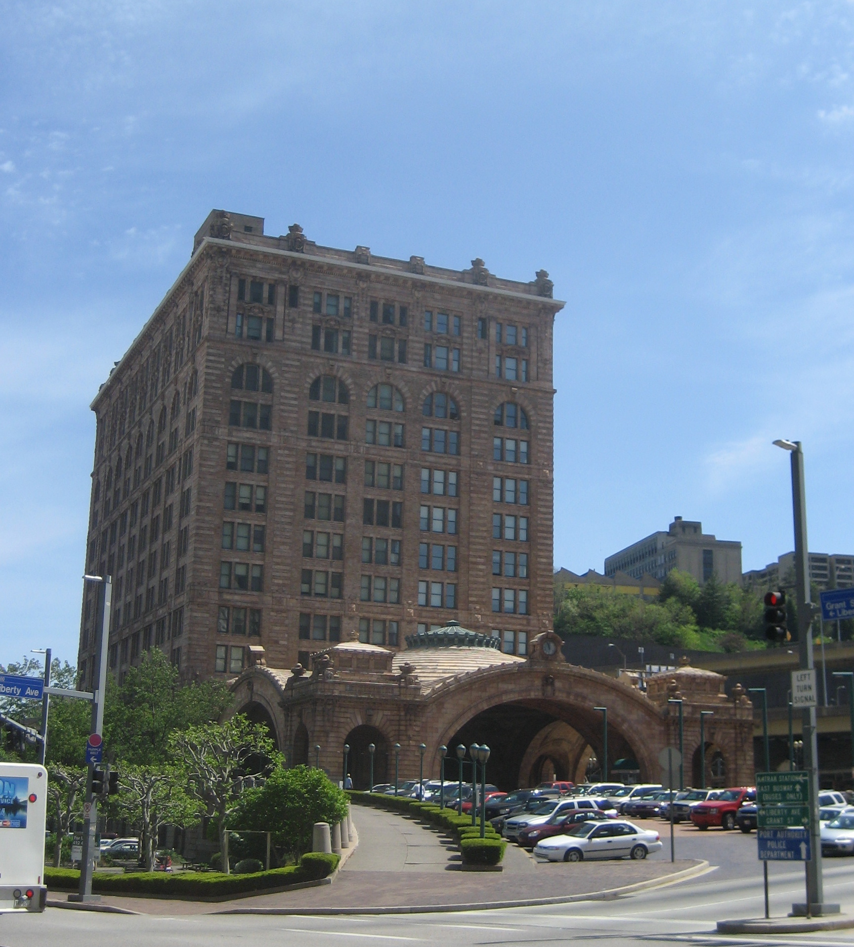 Pittsburgh Penn Station, designed by Daniel Burnham. Opened in 1903 and converted to an apartment building in 1988. The rotunda is impressive.